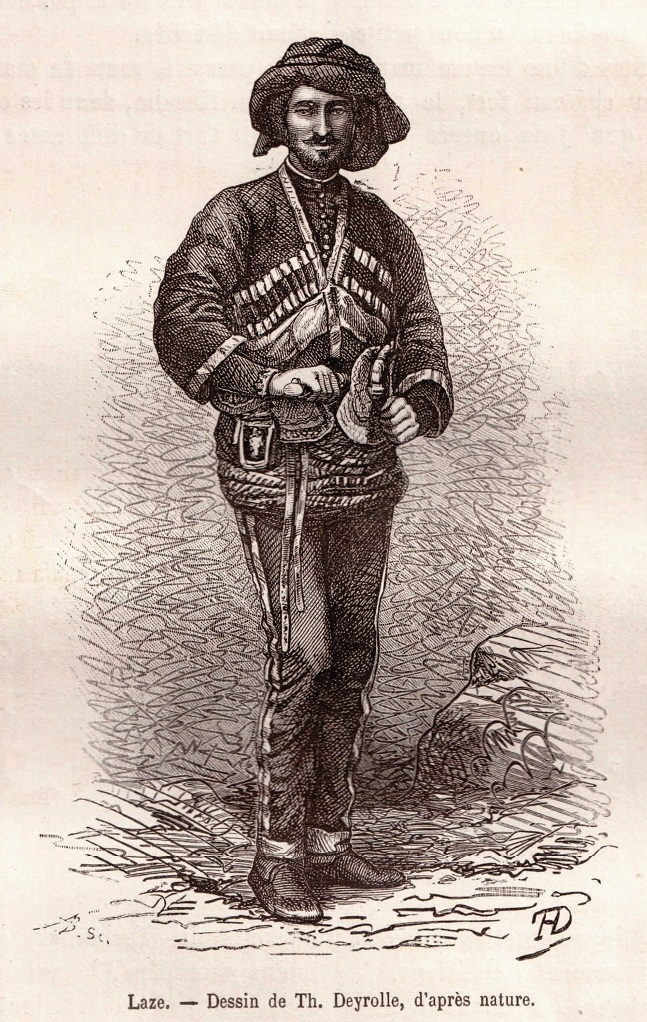 Engravings from Le Tour du Monde based on drawing by Théophile Deyrolle, who traveled in Turkey and Georgia in the 1870s, documenting, among other things, medieval Georgian monuments on the territory of the Ottoman Empire.